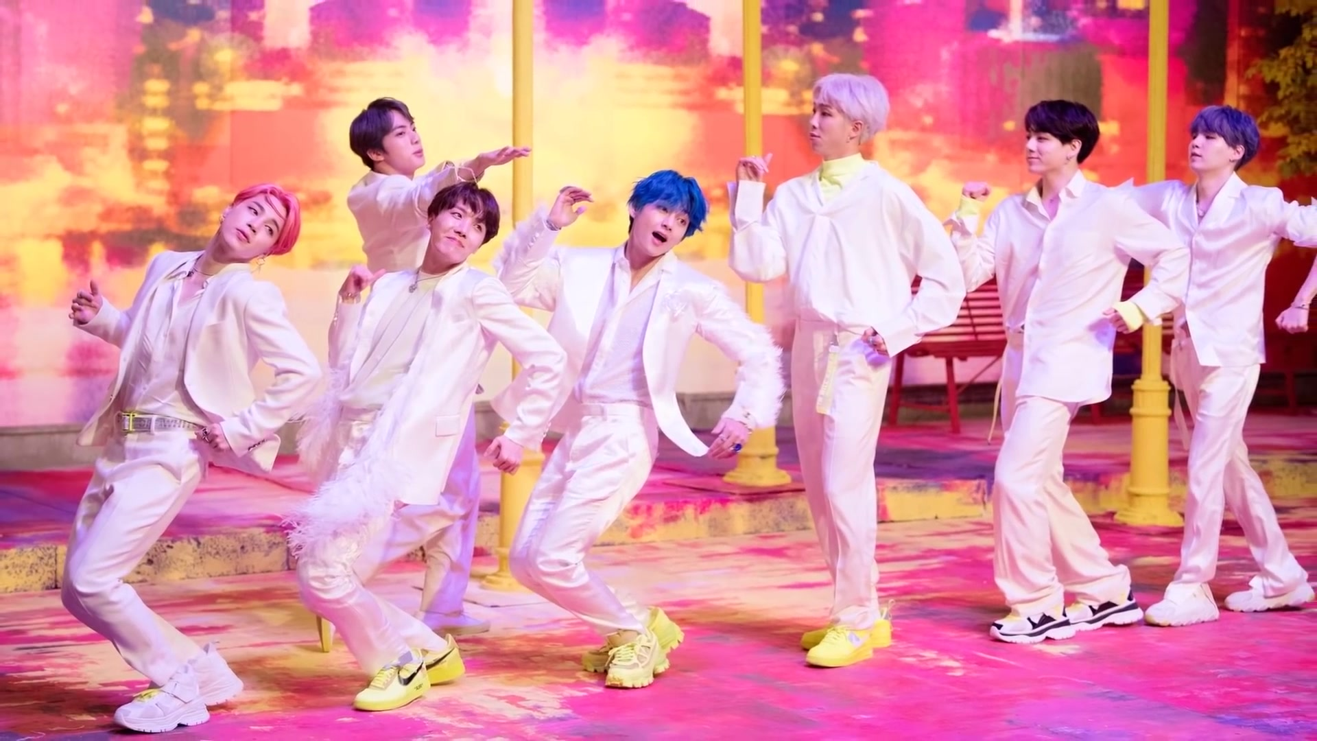 BTS for Dispatch "Boy With Luv" MV behind the scene shooting, 15 March 2019